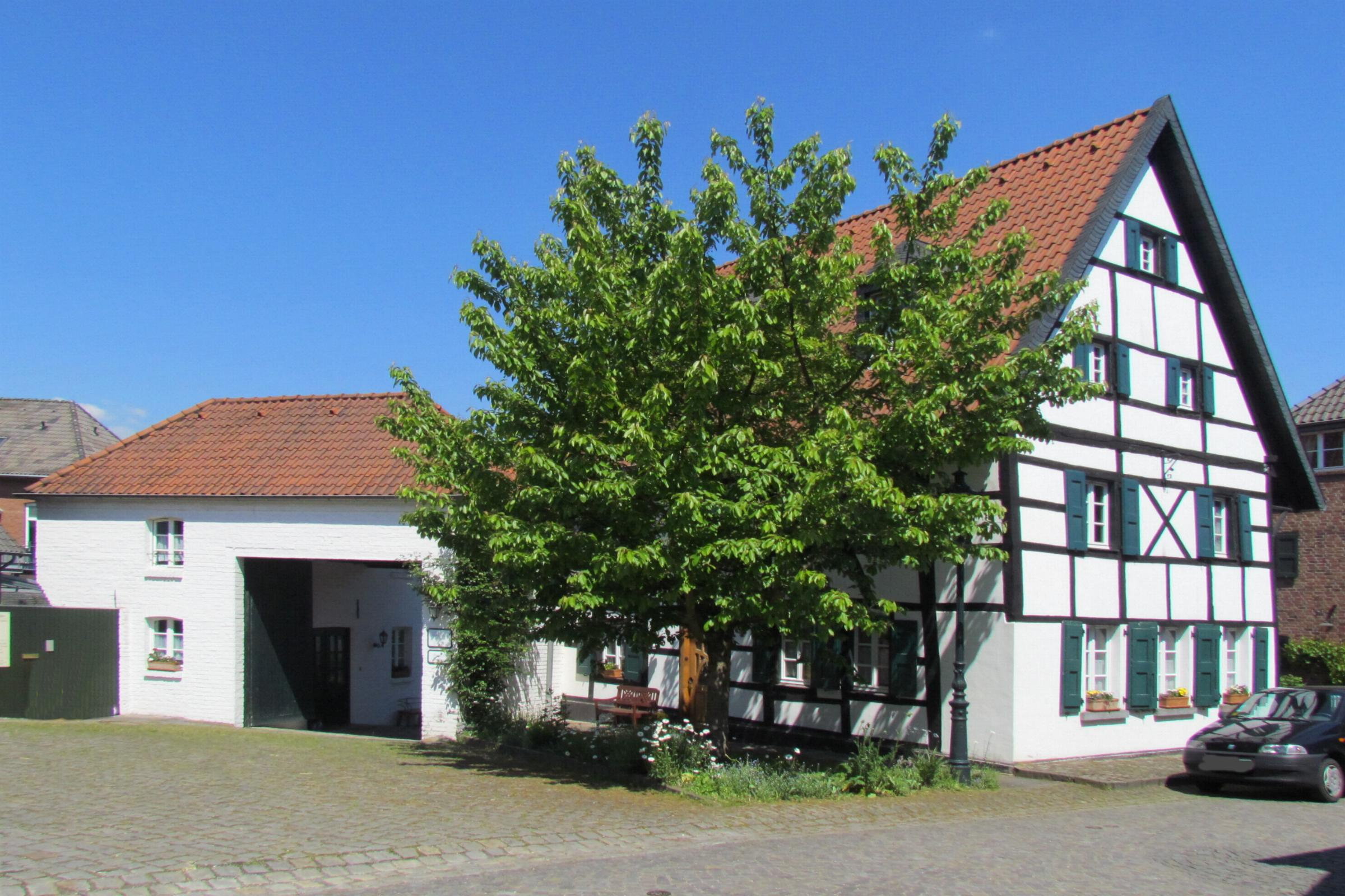 This is a photograph of an architectural monument.It is on the list of cultural monuments of Korschenbroich